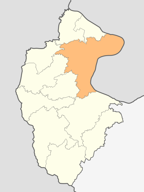 Map of Vidin municipality, Vidin Province